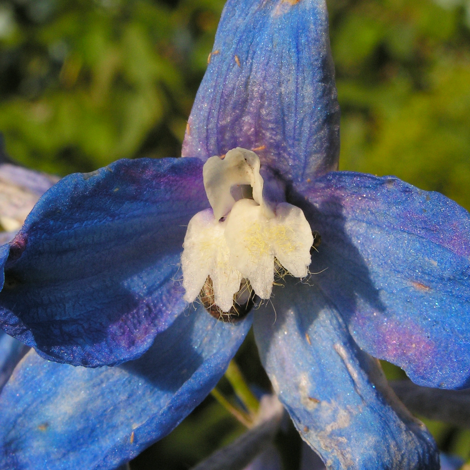 The flower of cultivated Delphinium elatum. Moscow region, Russia.